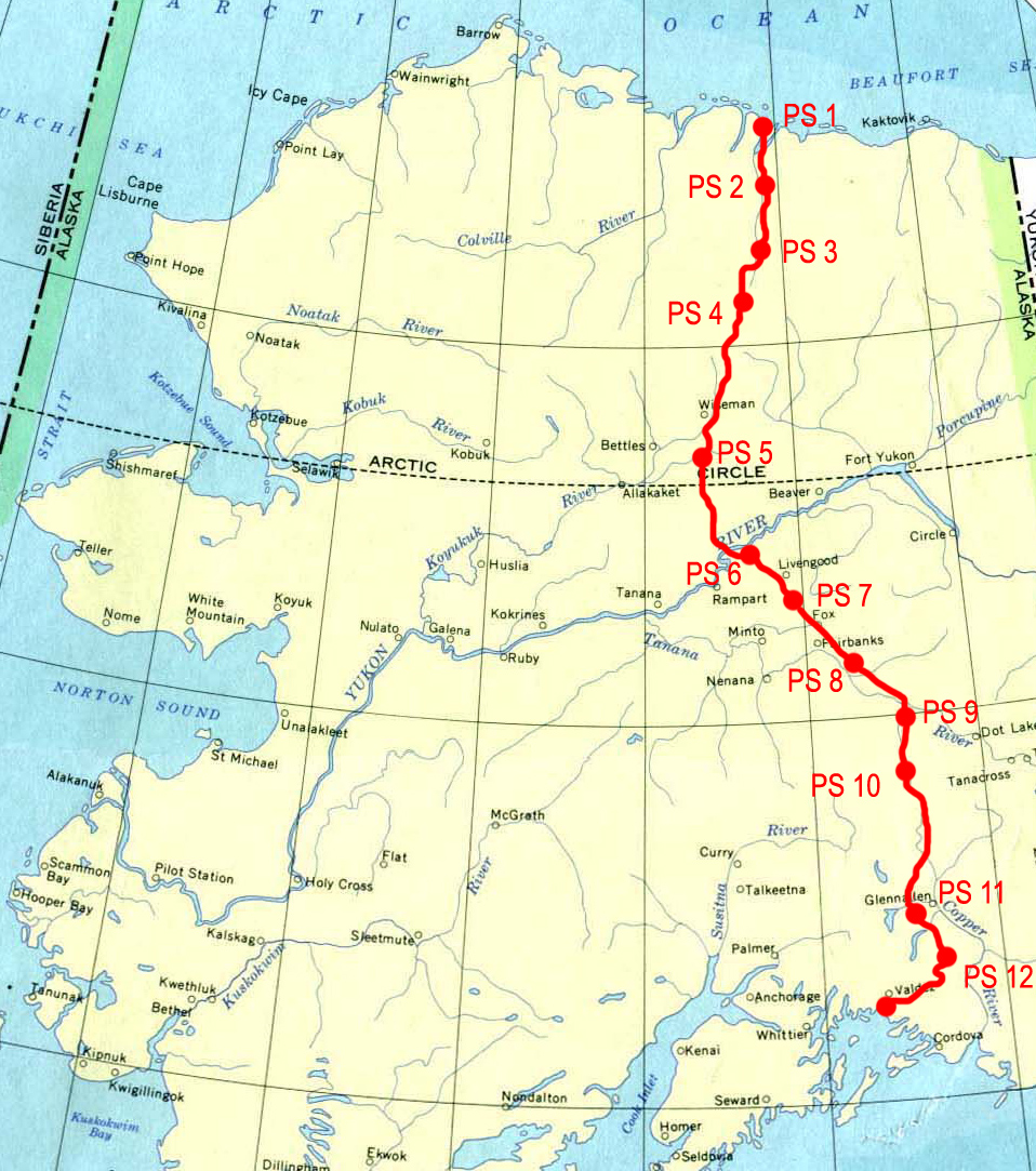 Trans-Alaska Pipeline System (PS: pump station;2, 6, 8, 10 are on Standby; 11 was never built)